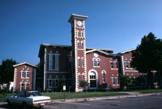 Front of the Morgan County Courthouse, located on Courthouse Square in downtown Martinsville, Indiana, United States. Built in 1859, it is listed on the National Register of Historic Places, and it is part of a Register-listed historic district, the Martinsville Commercial Historic District.